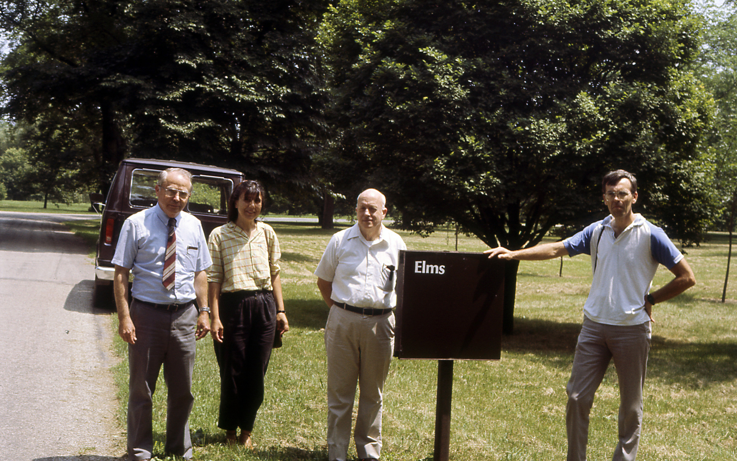 Elms field in Morton arboretum and elm breeders George Ware, Smalley and Guries 1987.07.02.jpg (photo: Mihailo Grbić)